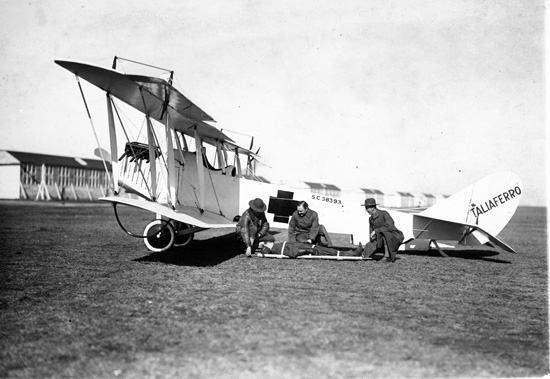 An ambulance version of the Curtiss JN-4 ("Jenny") during field exercises.